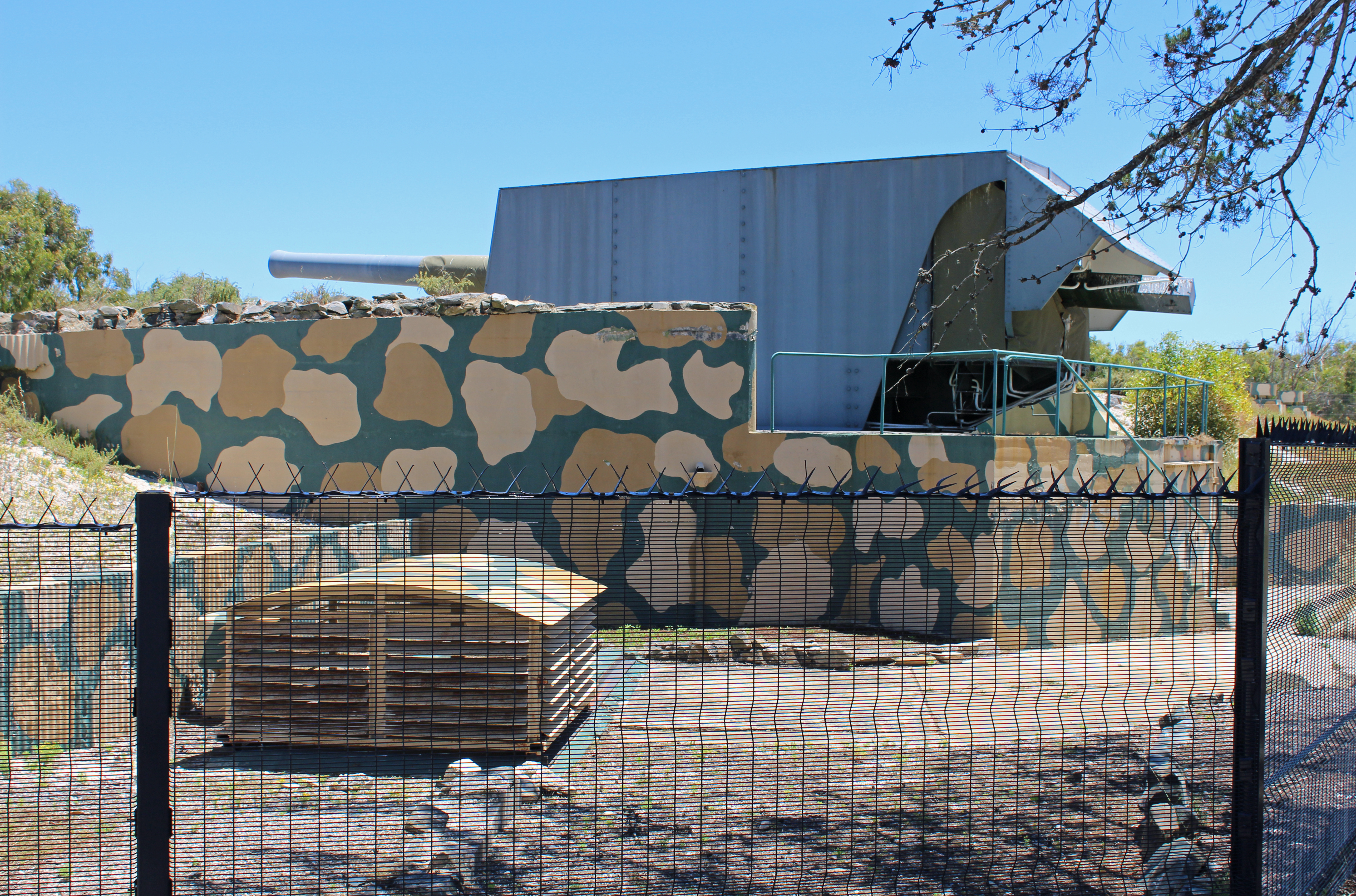 Ordnance BL 9.2 inch coast defence gun in the restored battery on the south side of Robben Island. Photograph taken from tour bus (passengers not allowed to disembark).